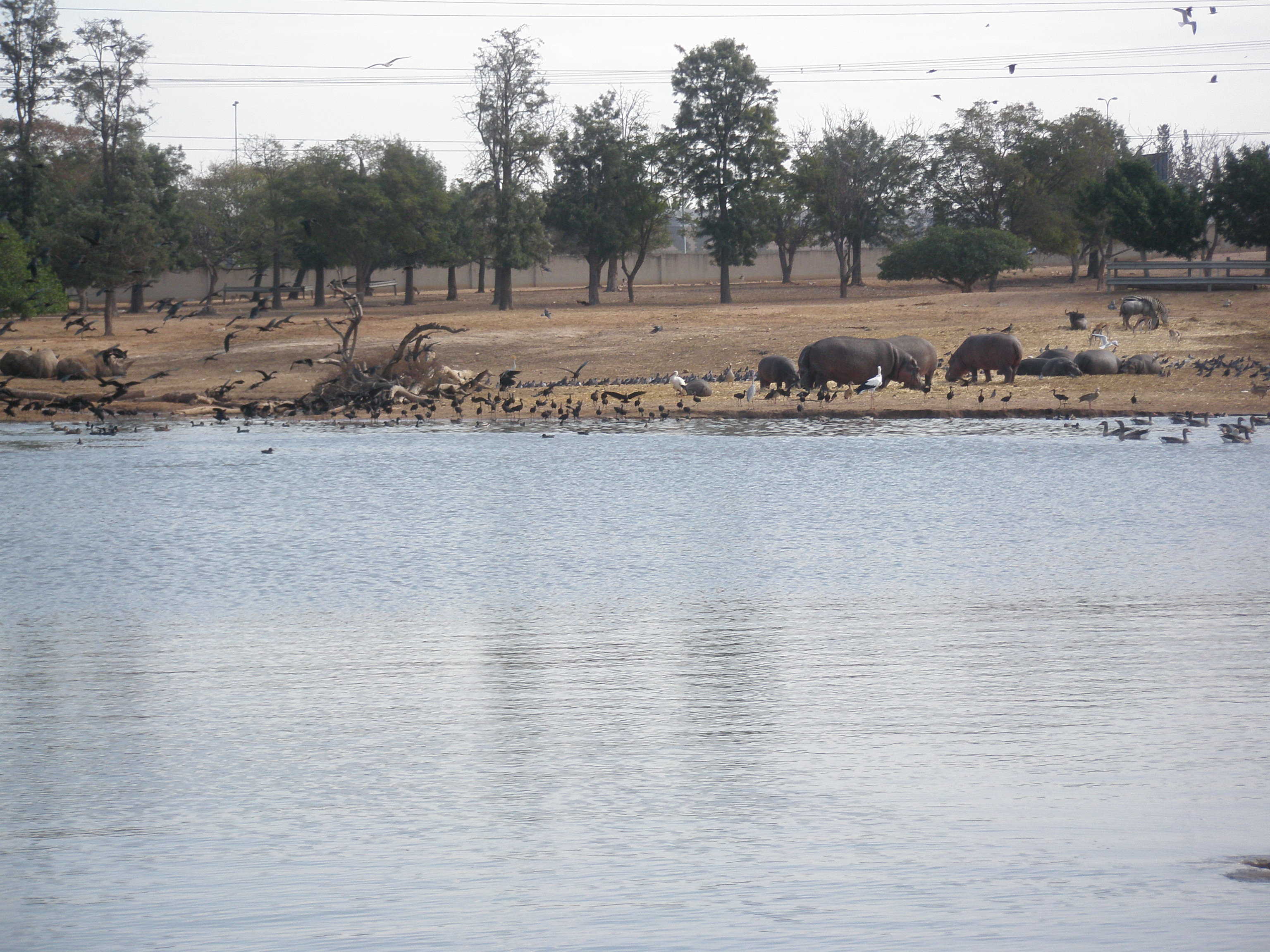 Lake and animals at Zoological Center of Tel Aviv-Ramat Gan